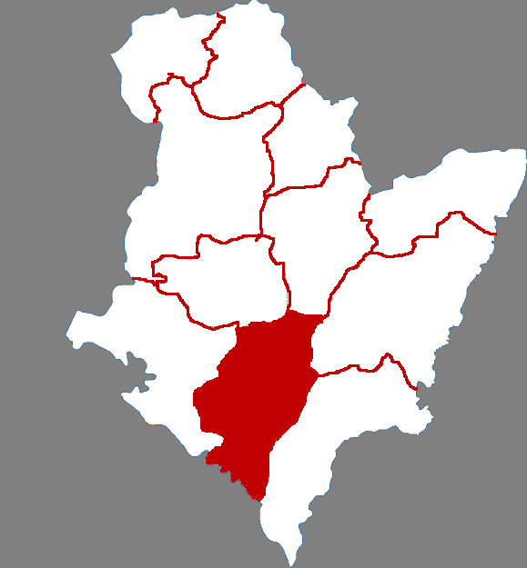 Location of Zaoqiang county in Hengshui City, China